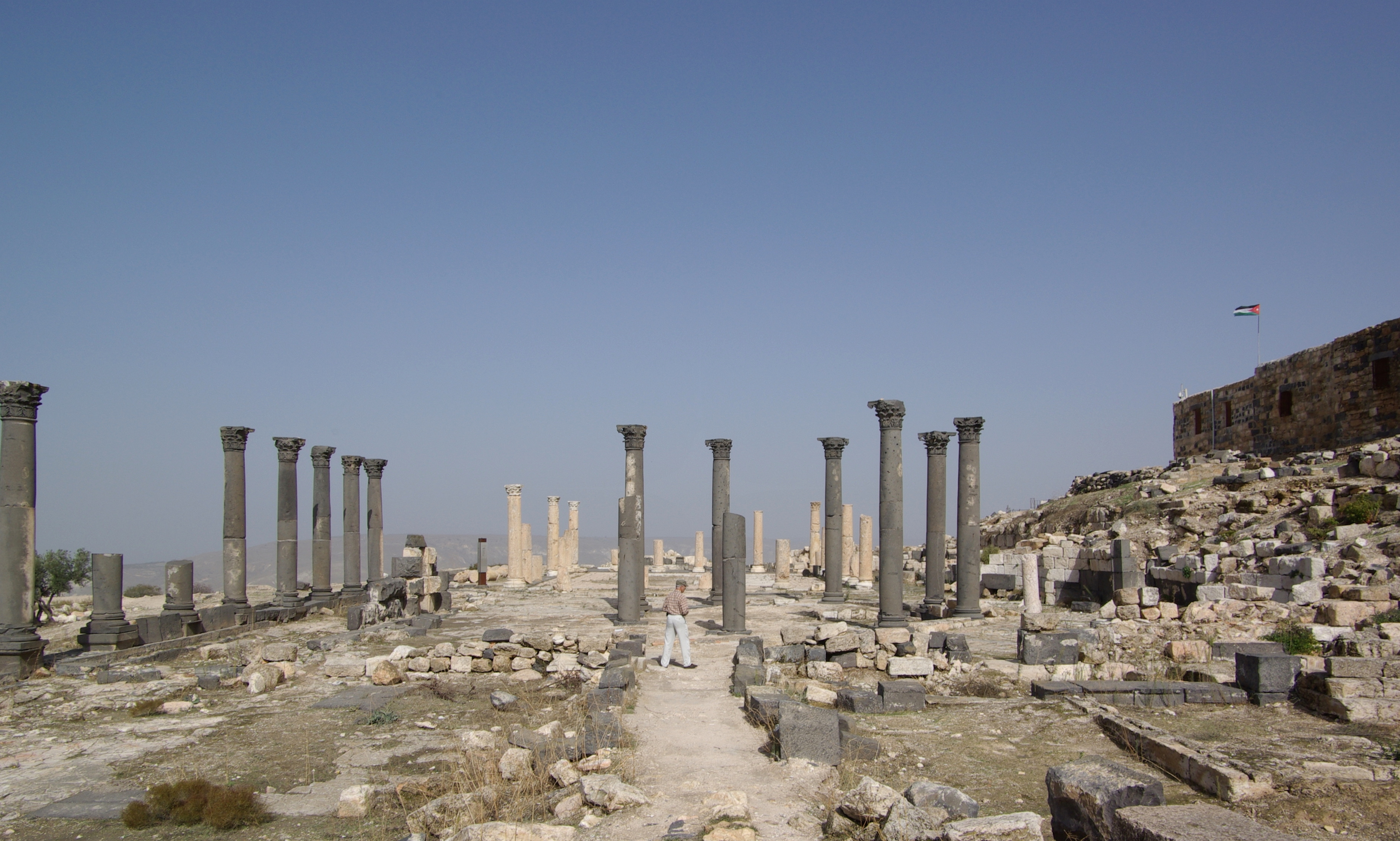 Umm Qais/Gadara, ruins of the bzyantine church